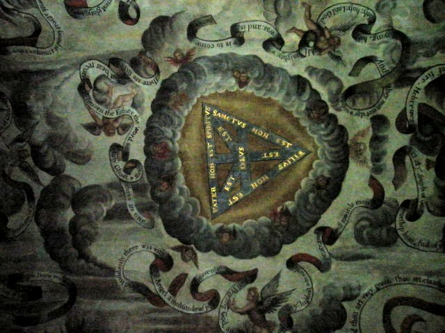 Ornate ceiling at St Mary, Bromfield, near to Bromfield, Shropshire, Great Britain, showing a form of the Shield of the Trinity diagram.